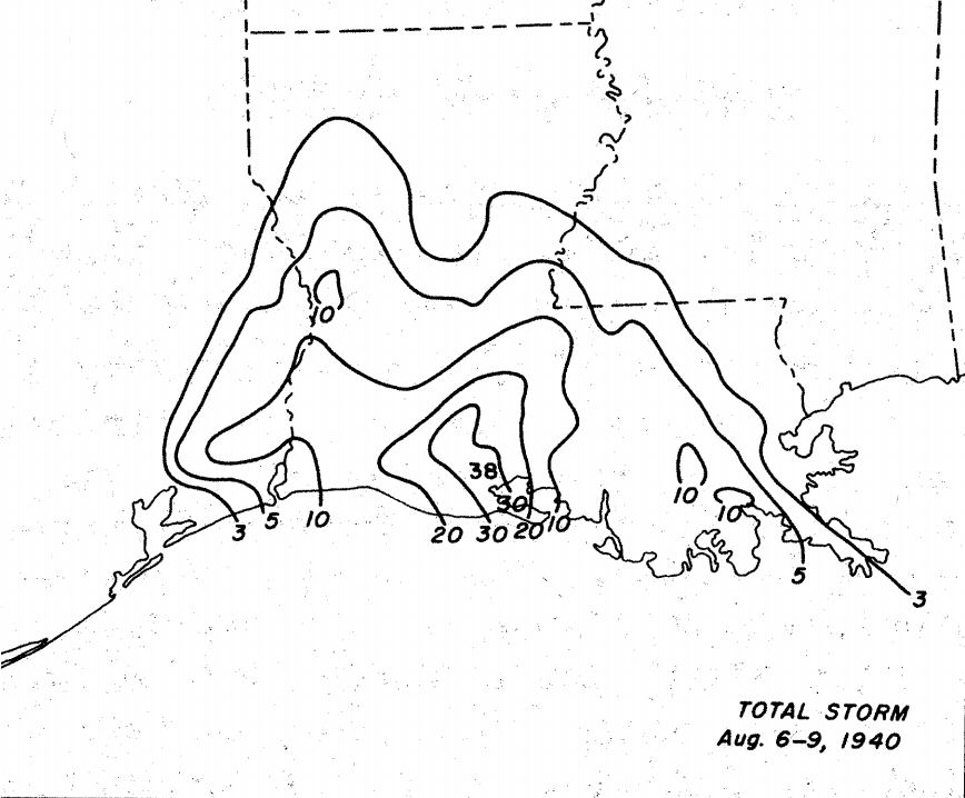 Rainfall totals from Hurricane Two of the 1942 Atlantic hurricane season.